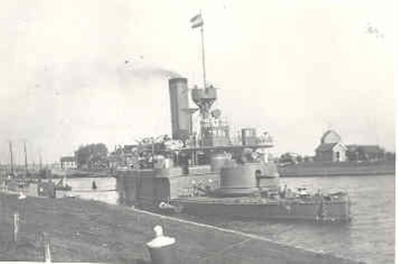 The Dutch coastal defence ship Reinier Claeszen. This ship is often described as a monitor - presumably because of its low freeboard - but with its massive superstructure it more closely resembles a contemporary coastal defence ship.